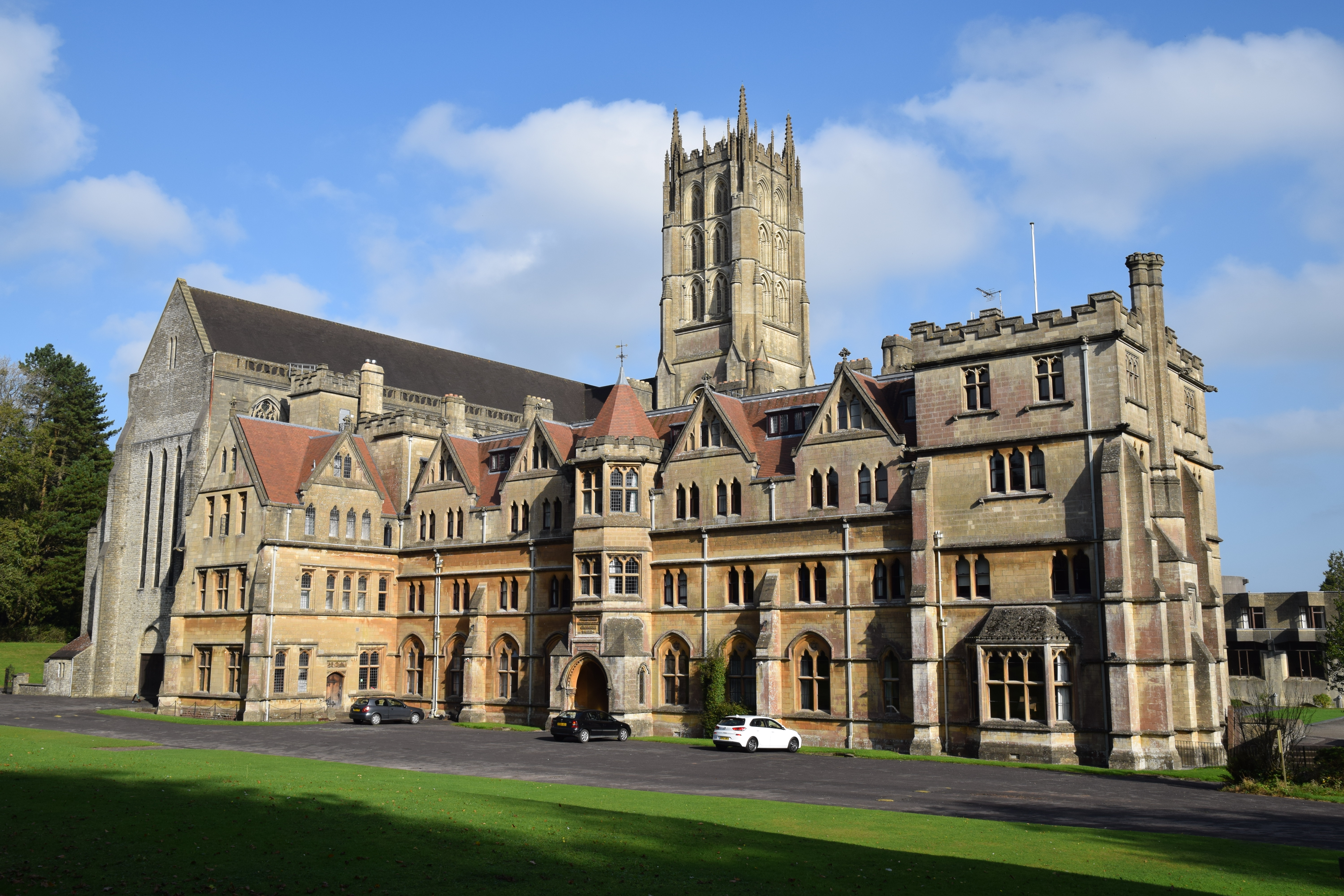 Downside Abbey (Roman Catholic Basilica of St. Gregory the Great), Benedictine, Somerset, 15 October 2017. Gothic Revival, built 1873-1938, various architects. The tower by Sir Giles Gilbert Scott was began in 1881 and completed in 1938.